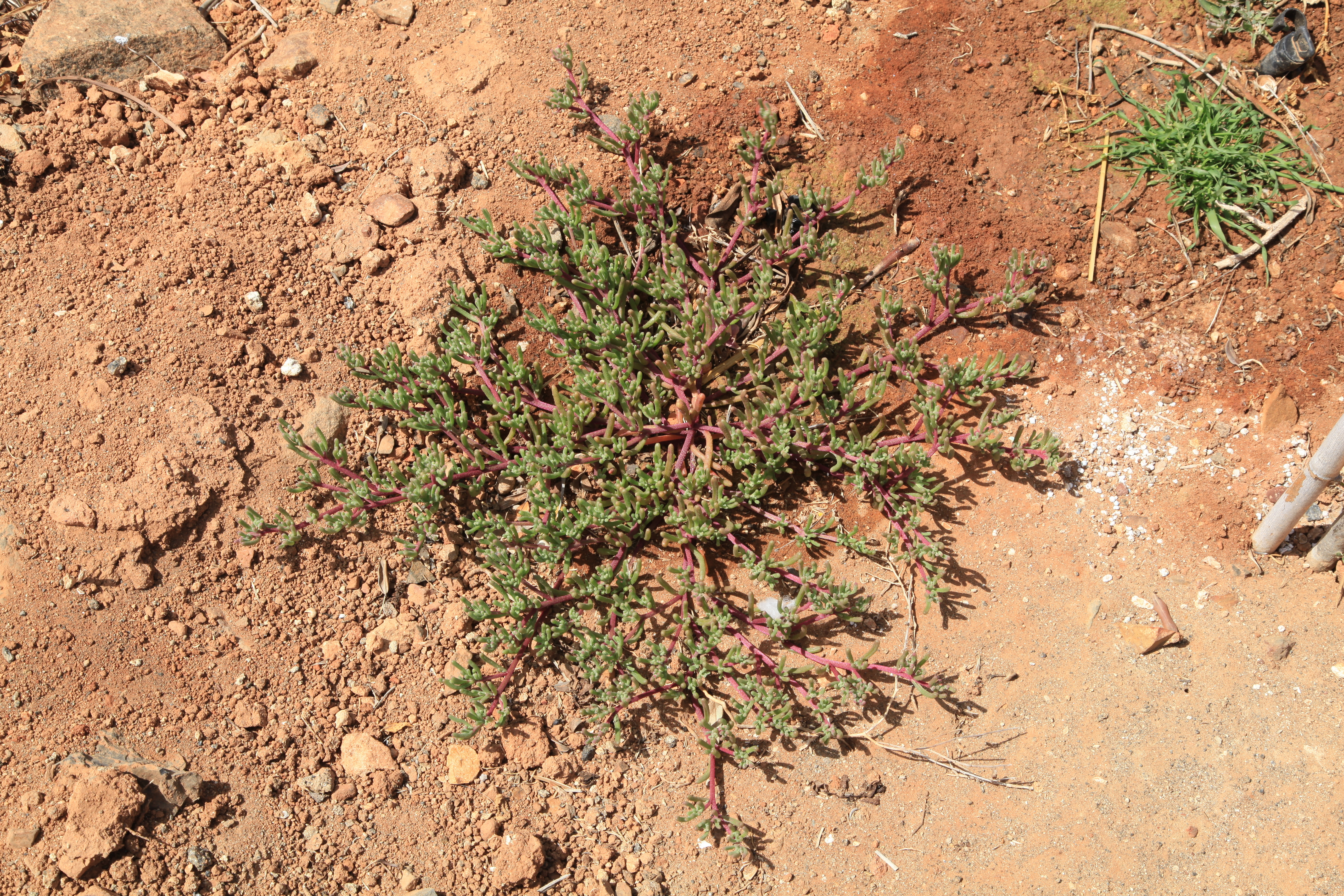 Mesembryanthemum nodiflorum growing at Calle General Primo De Rivera in Betancuria, Fuerteventura, Canary Islands